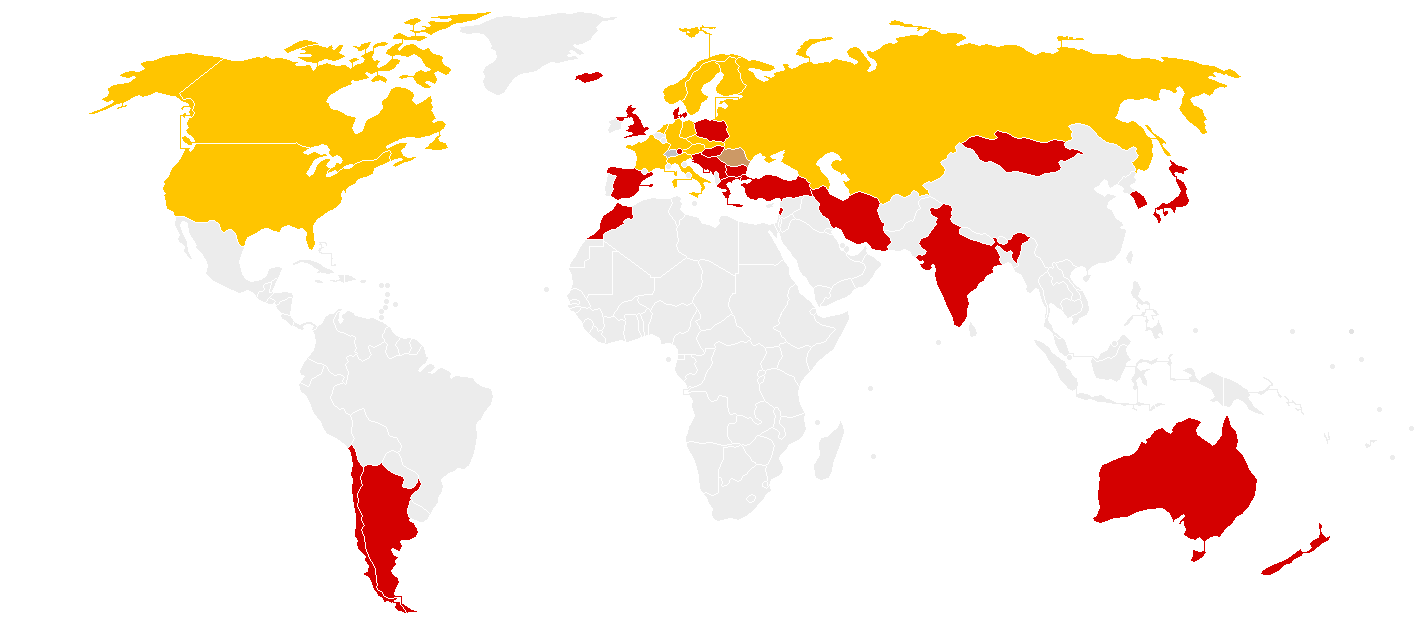 Countries with at least one gold medal Countries with at least one silver medal Countries with at least one bronze medal Countries that didn't get any medal Countries that did not participate